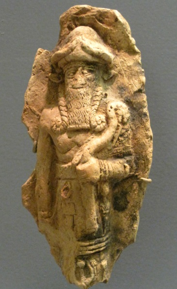 Ancient depiction of Nergal